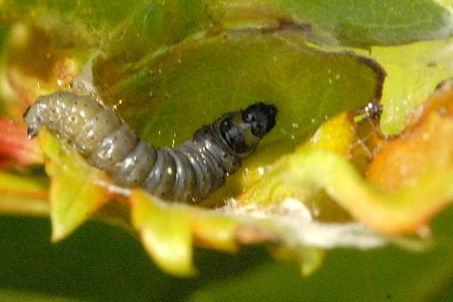 Ancylis achatana from Commanster, Belgian High Ardennes .